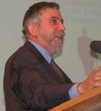 "Paul Krugman lectured on "After Bush - The End of the Neo-Conservatives and the Moment for the Democrats" to over 500 guests in the jam-packed big lecture hall at the German National Library in Frankfurt"